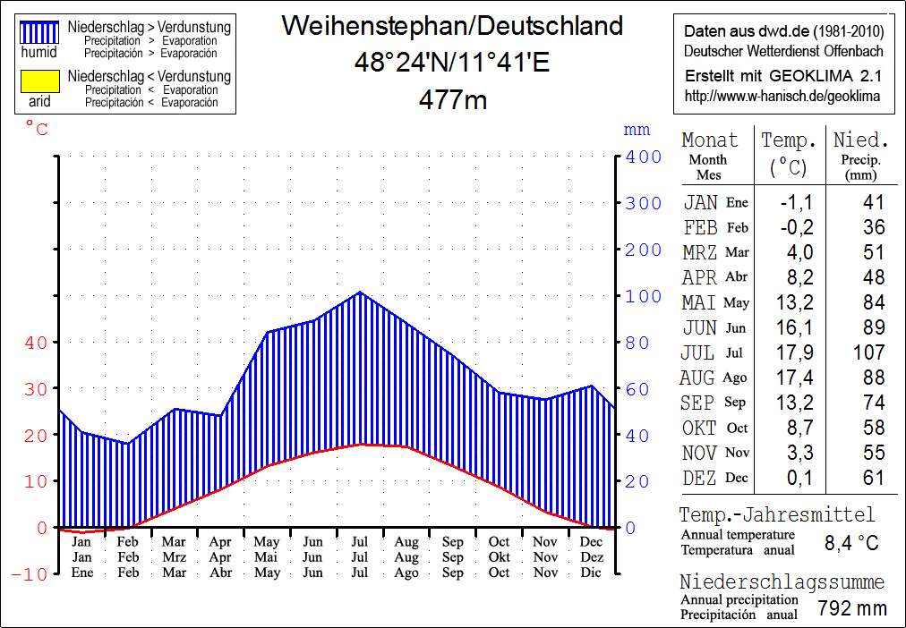 climate chart in the format by Walther and Lieth, metric, °Celsisus and millimeters, made with Geoklima 2.1